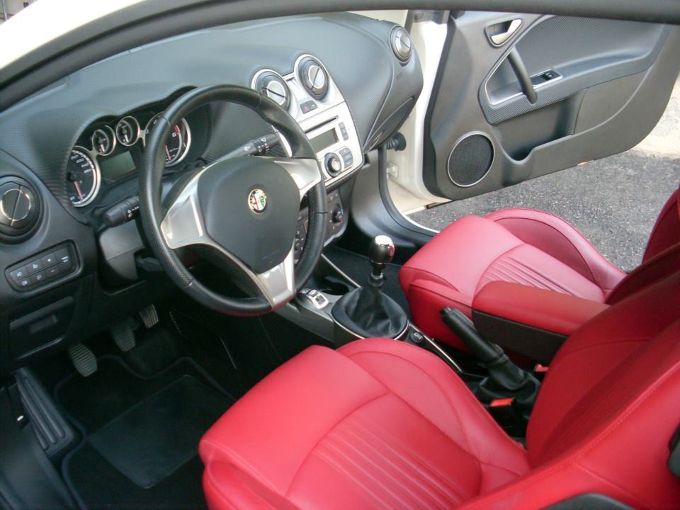 ALFA ROMEO MITO INTERIOR